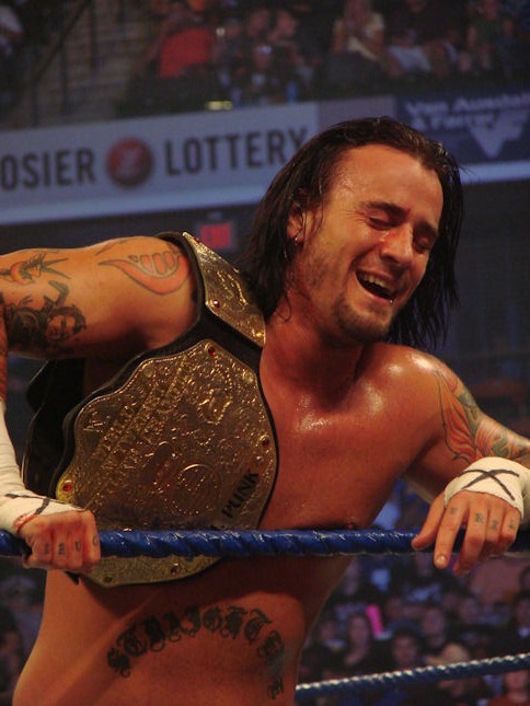 CM Punk as World Heavyweight Champion at SummerSlam 2008 (August 17, 2008. Indianapolis, Indiana).